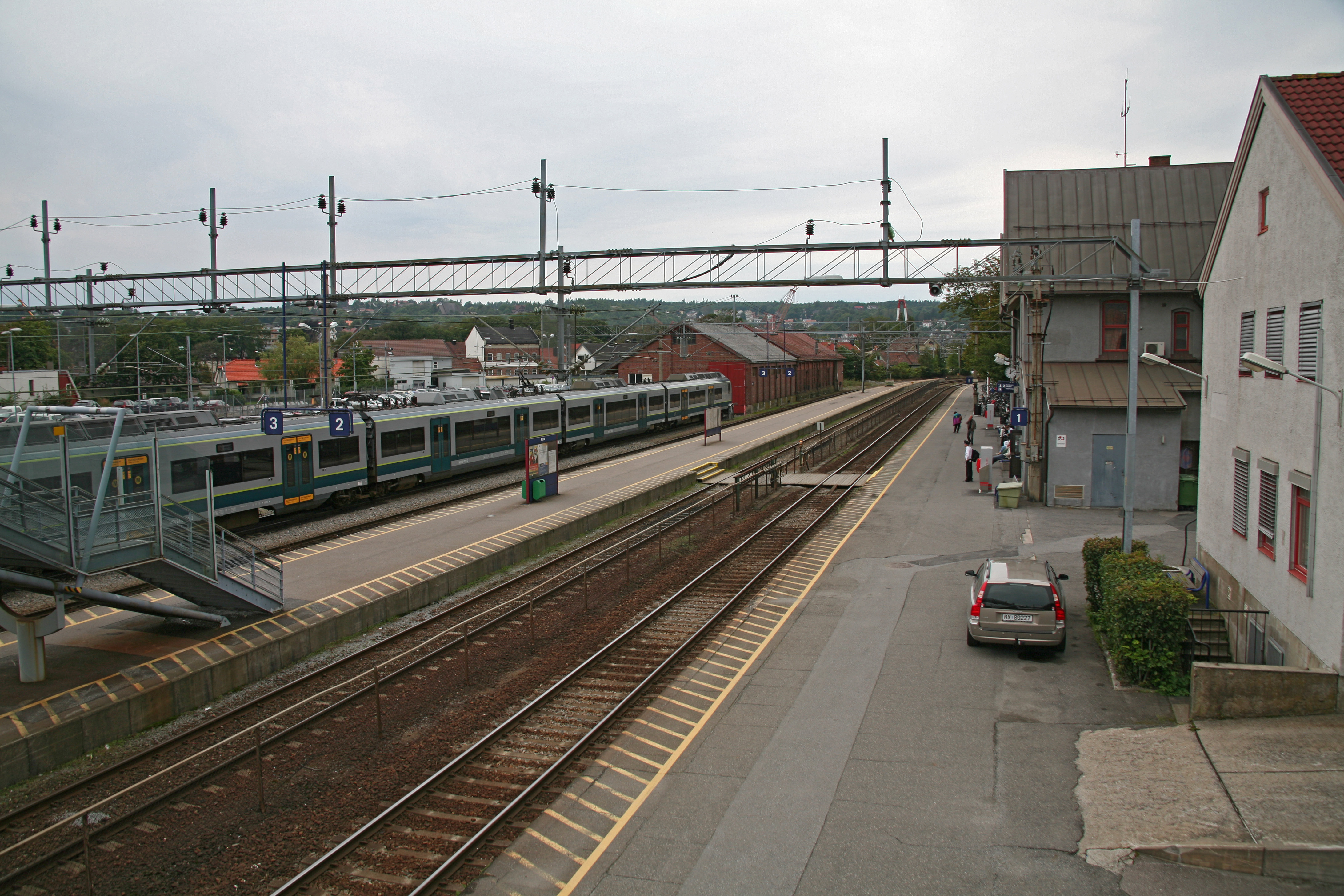 Picture of Moss Railway Station (Østfold - Norway)